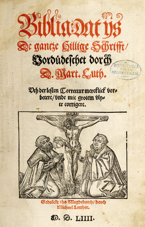 scan of title page of Biblia: Dat ÿs De gantze Hillige Schrifft, Vordüdeschet dorch D. Mart. Luth. Vth der lesten Correctur mercklick vorbetert, vnde mit grotem vlyte corrigert. Magdeburg: Michael Lotther, 1554. This copy in Gottfried Wilhelm Leibniz Bibliothek - Niedersächsische Landebibliothek Hannover; Signatur CIM 8/9106